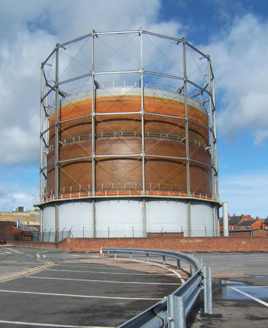 Crossgates Gasholder Number 1 The Crossgates gasholder (gasometer) is a prominent local landmark, visible for miles around. The contributor has been unable to establish the date of the structure. However, two circular structures are shown on 1894 and 1921 maps, which describe the site as The Crossgates, Halton & Seacroft Gas Company. The crash barrier in the foreground is in a car park situated on the site of former railway marshalling yard, which among other functions acted as a coal depot for local area and was attached to a nearby coal mine. Acknowledgement: - Alun Pugh, Leeds City Guide The East Leeds History & Archaeology Society Library.